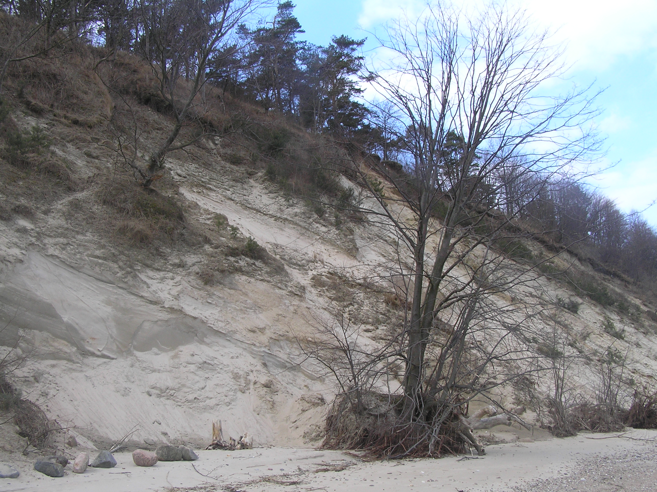 Cliff in Gdynia - Babie Doły